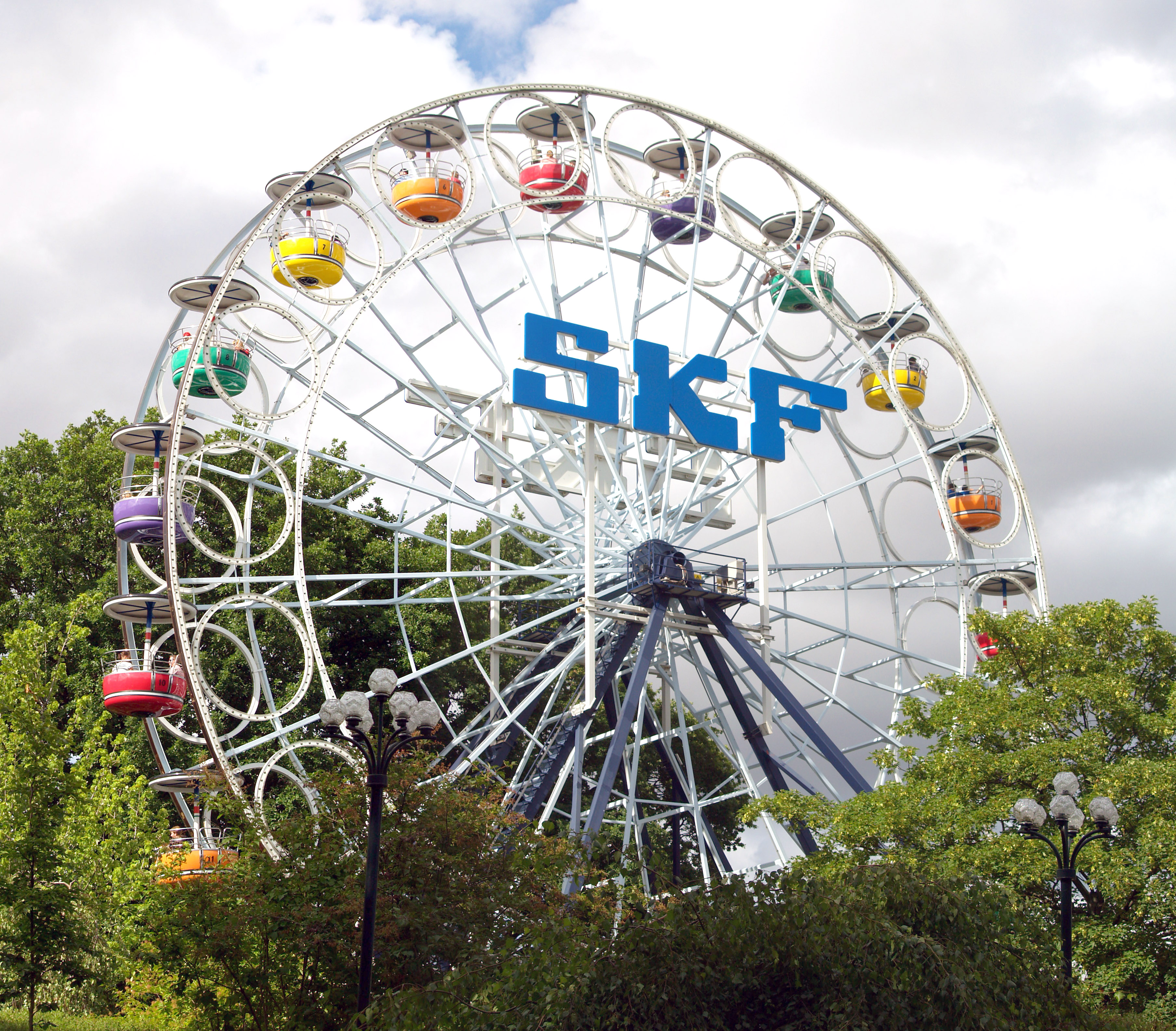 The Ferris Wheel at Liseberg in Gothenburg, Sweden.